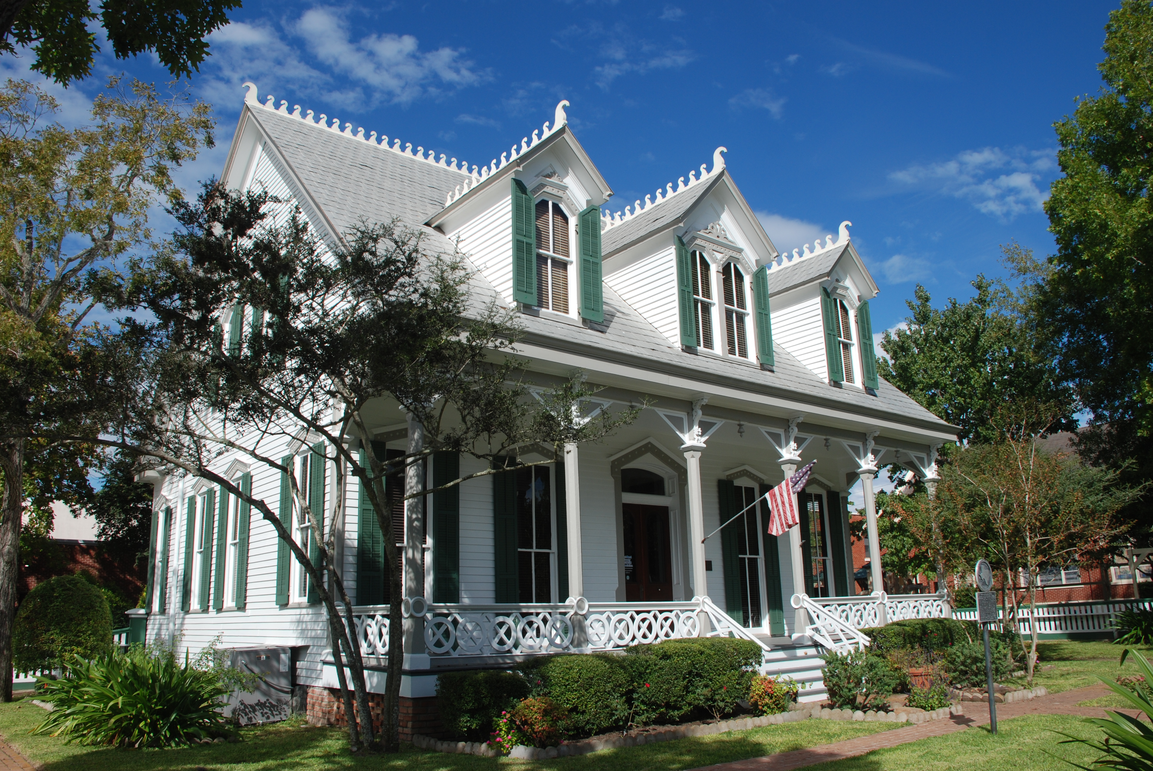 The McFarlane House (Richmond, Texas, USA)